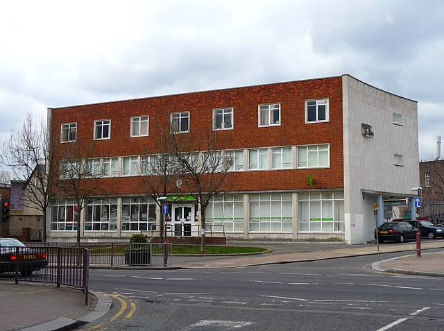 Offices, High Street Picked out by Pevsner as "quite a good modern building", which might sound like damning with faint praise, but isn't. Designed by E.H. Banks in 1954. The sides are gently curved. Currently used as a job centre.